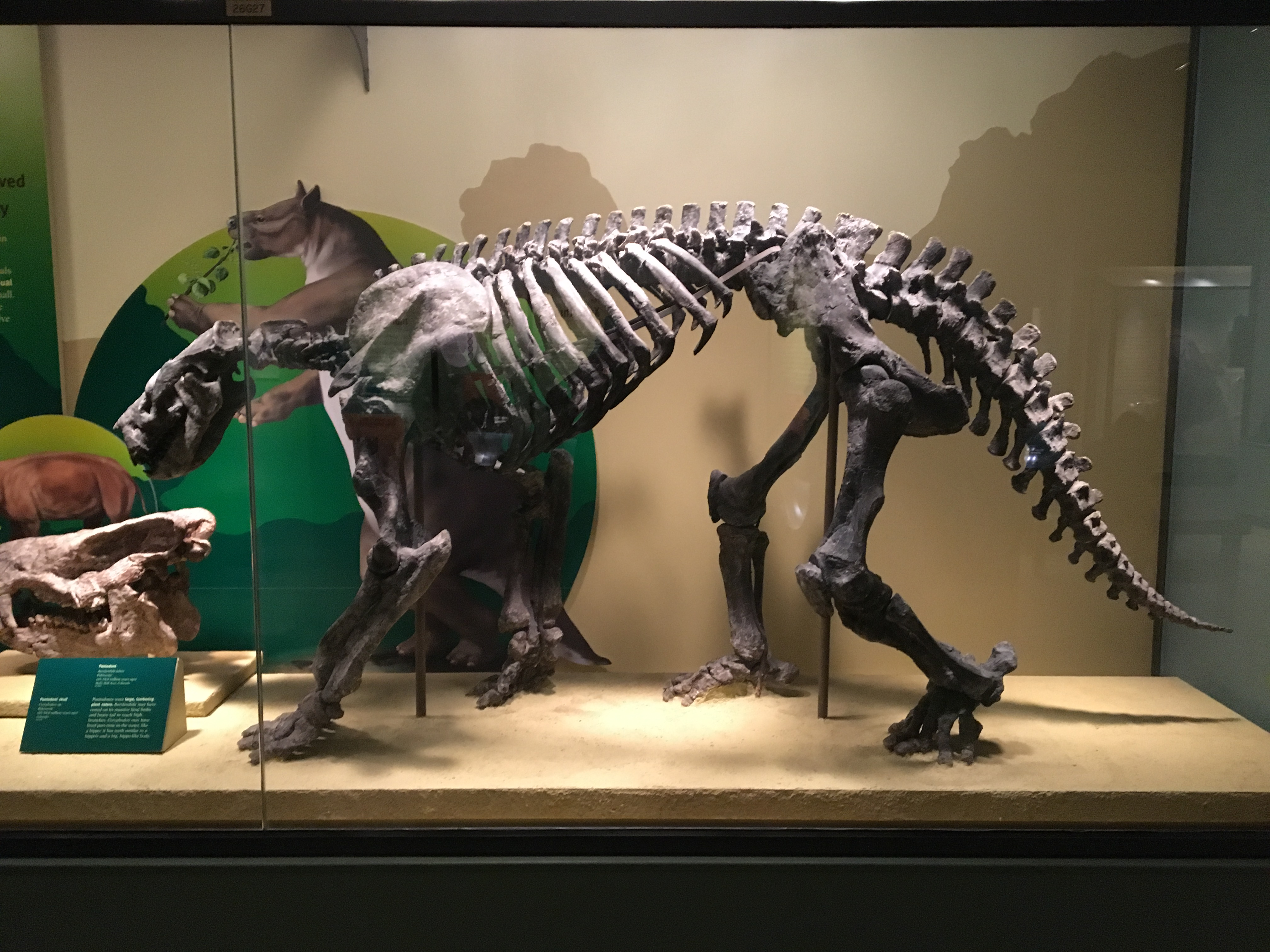 Fossil pantodont Barylamda